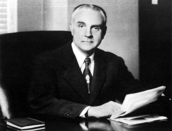 Congressman Chester B. McMullen of Florida